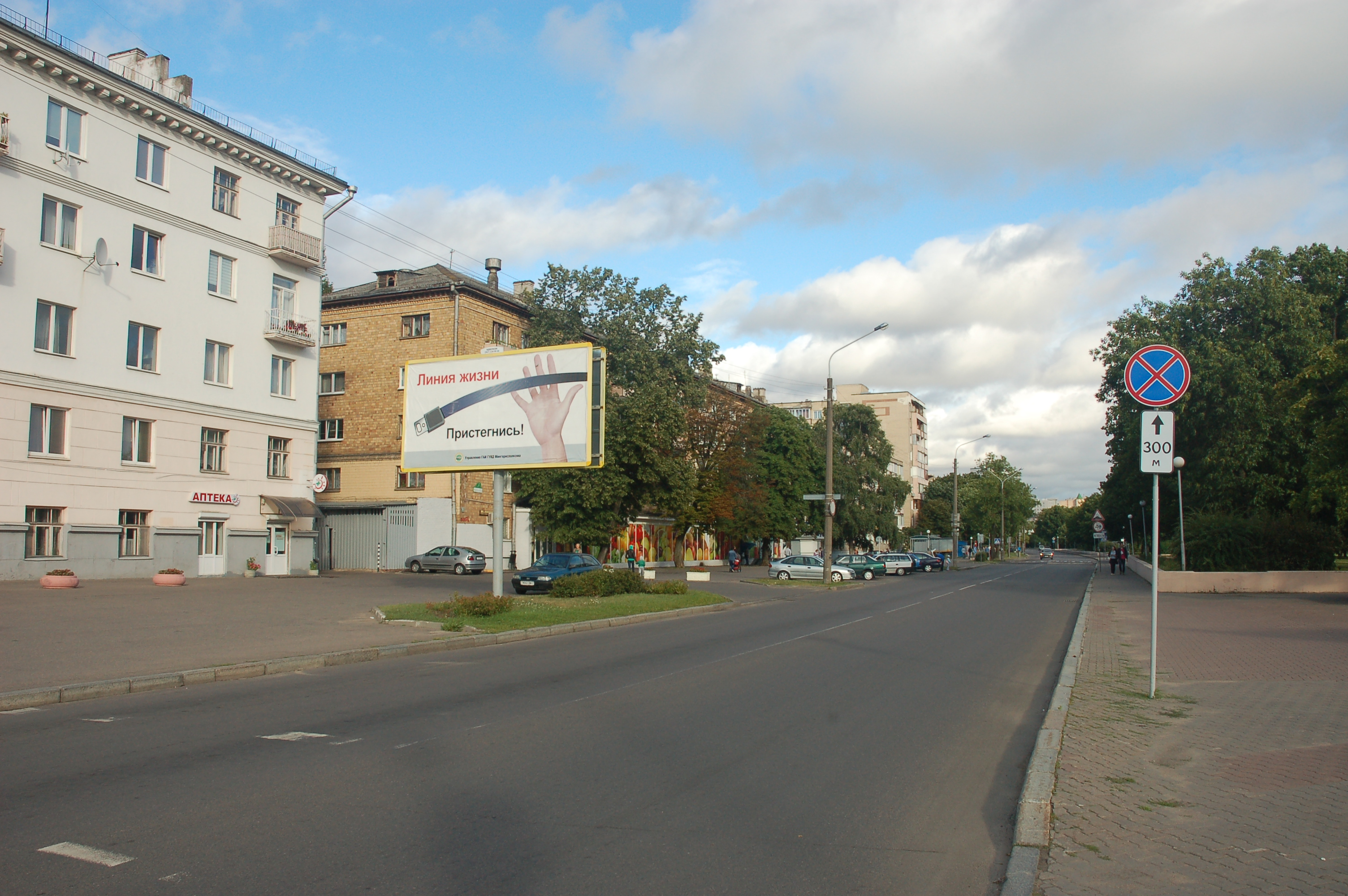 Minsk, Pulichava Street